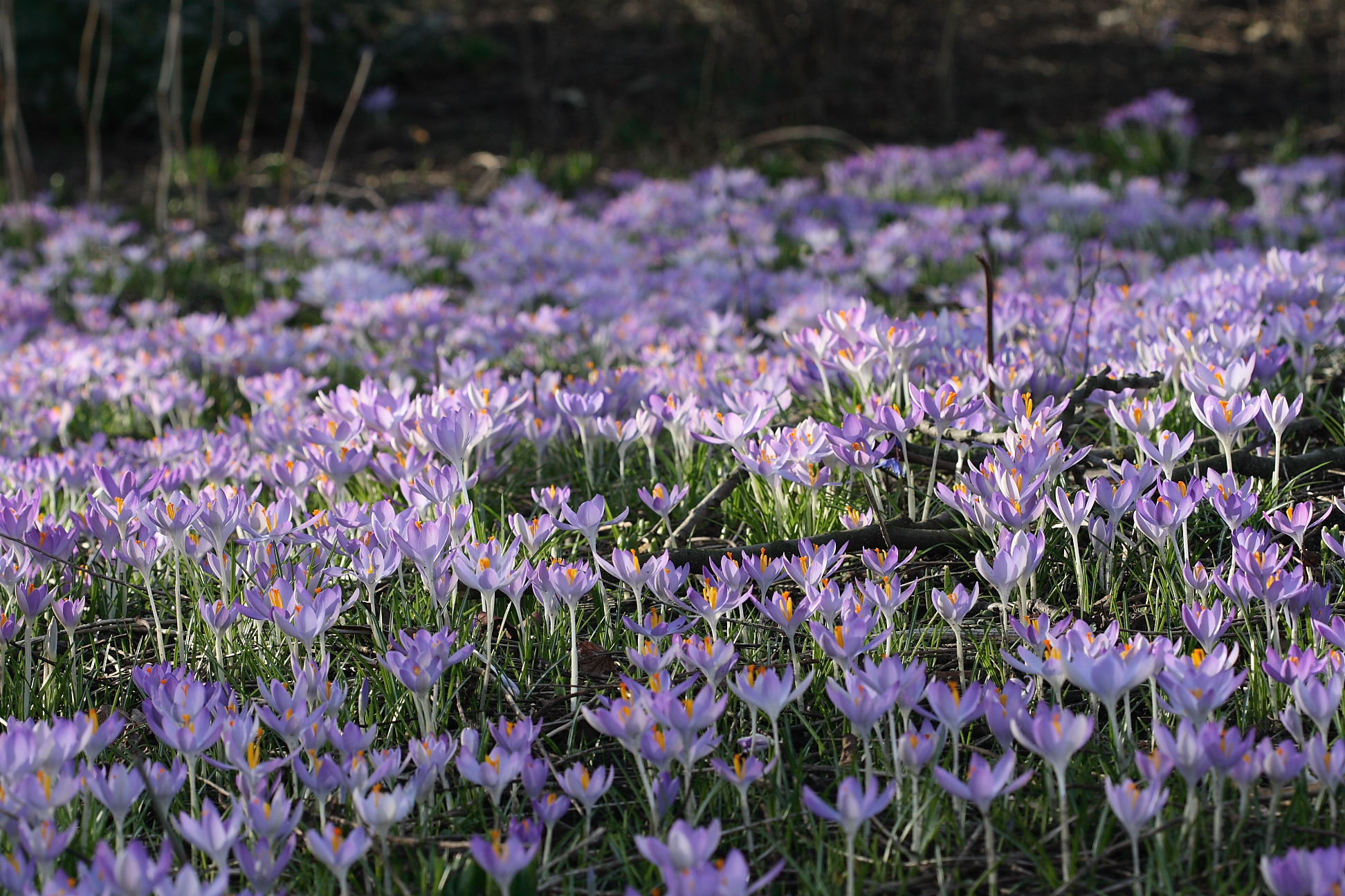 Crocus tommasinianus in Planten un Blomen, Hamburg, Germany.